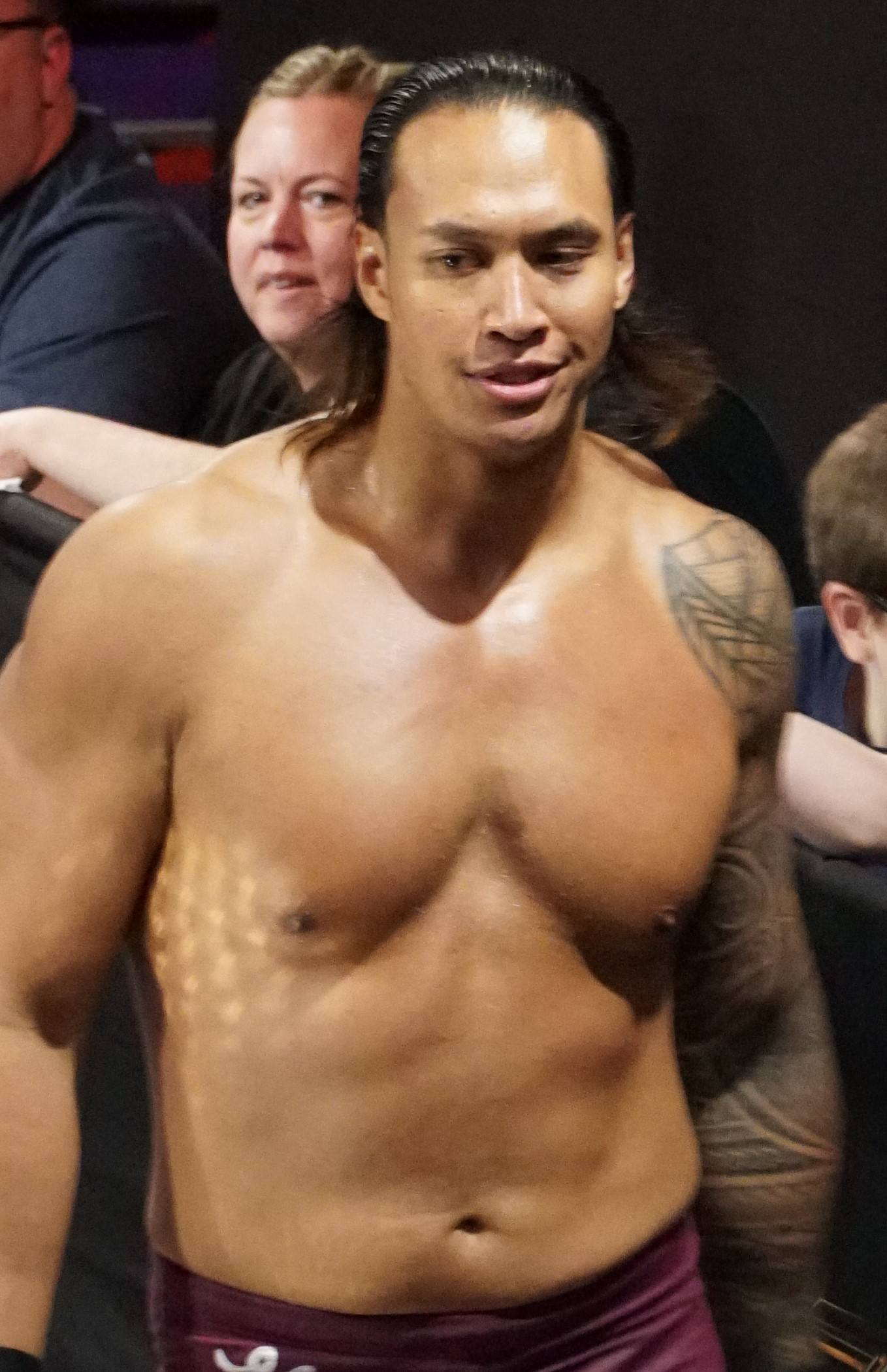 Kona Reeves prior to a match at WWE Axxess, April 2018.